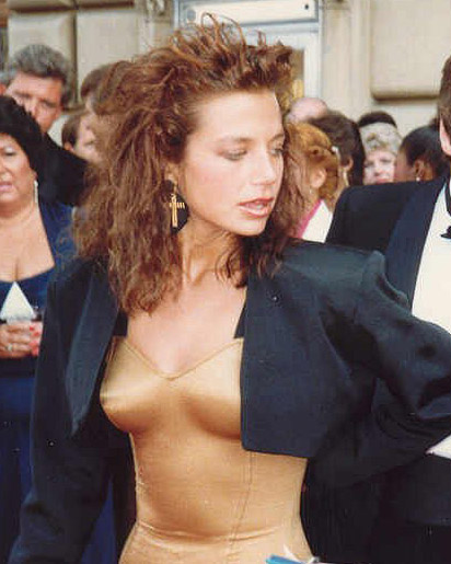 Justine Bateman on the red carpet at the 39th Annual Emmy Awards, September 20, 1987.